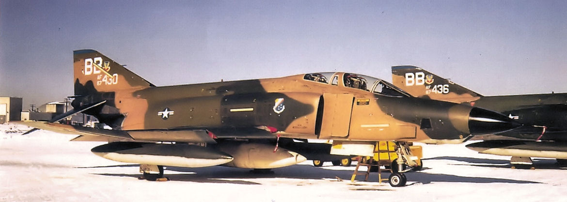 45th Tactical Reconnaissance Training Squadron - McDonnell Douglas RF-4C-33-MC Phantom - 67-0430